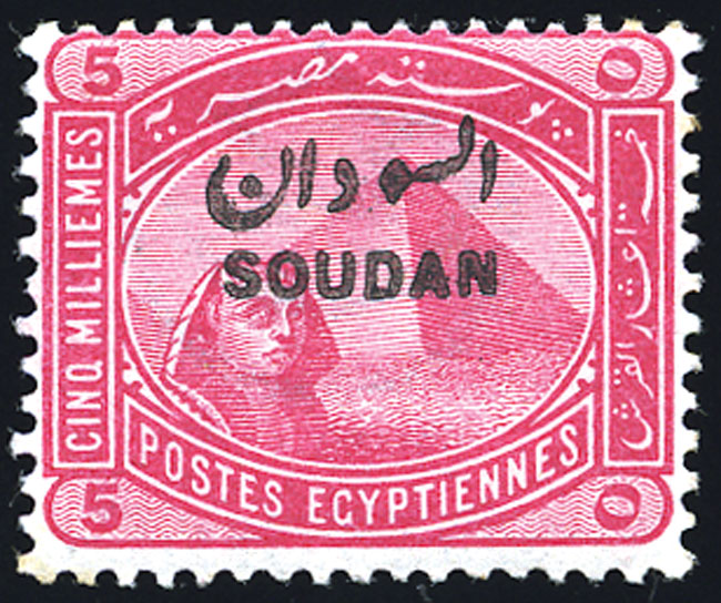 Stamp of Egypt overprinted for Sudan, 1897, milliemes.